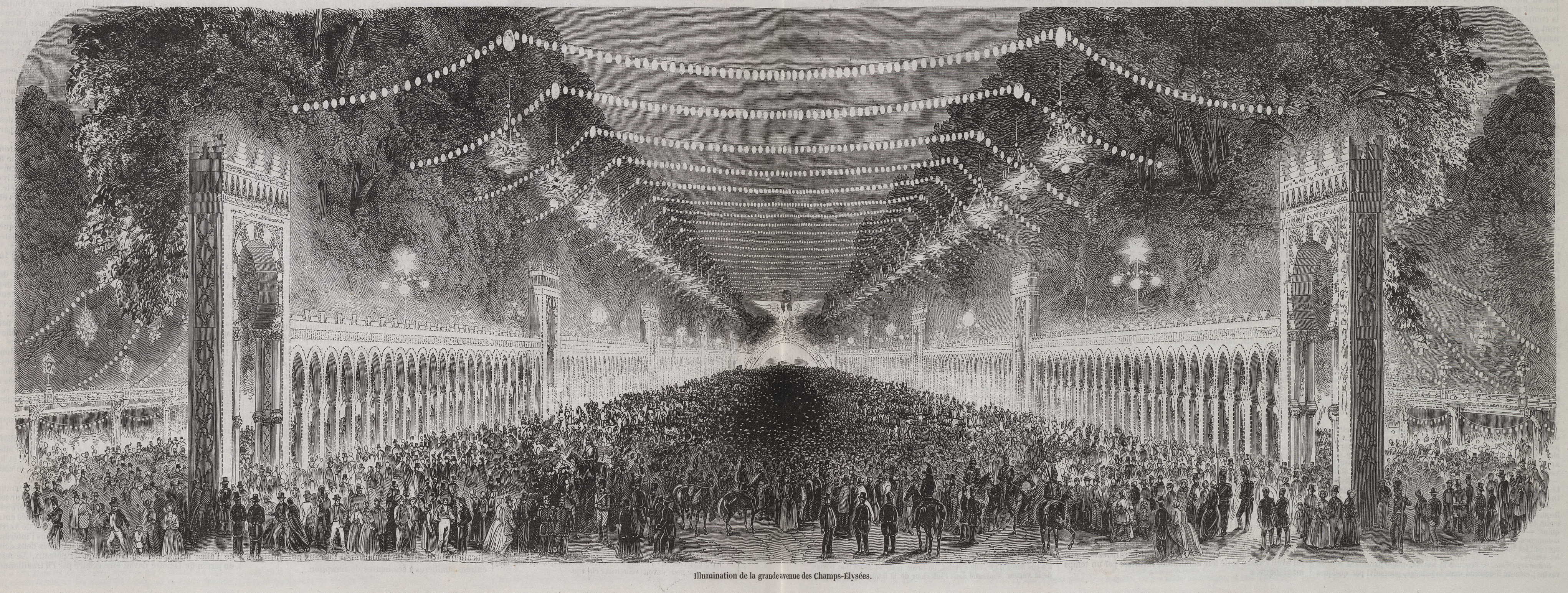 An 1853 illustration of the Champs-Élysées, which were illuminated on August 15th to commemorate the Assumption of Mary.